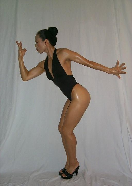 Chisato Mishima